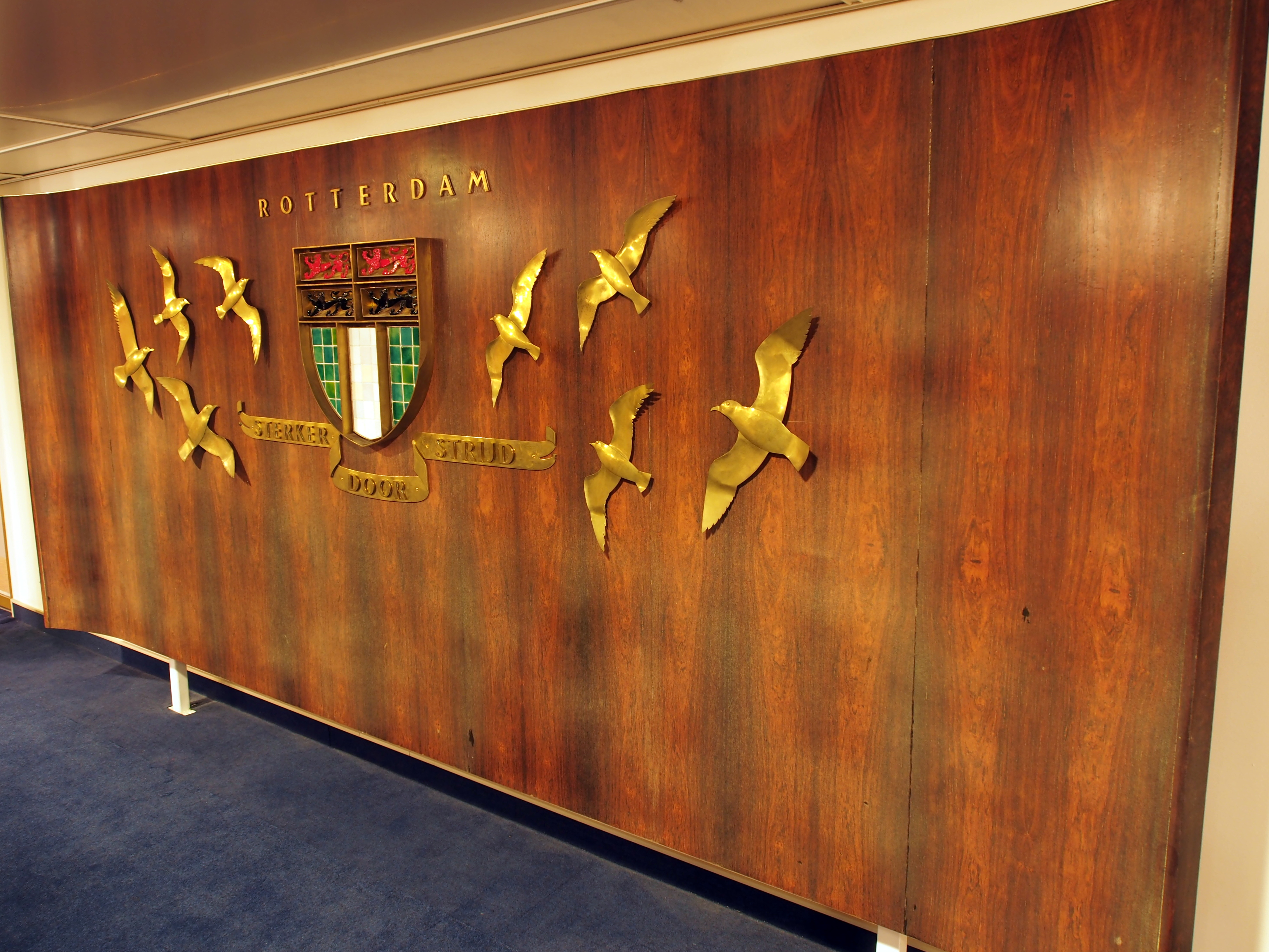 Photographed on the SS Rotterdam, The Netherlands.